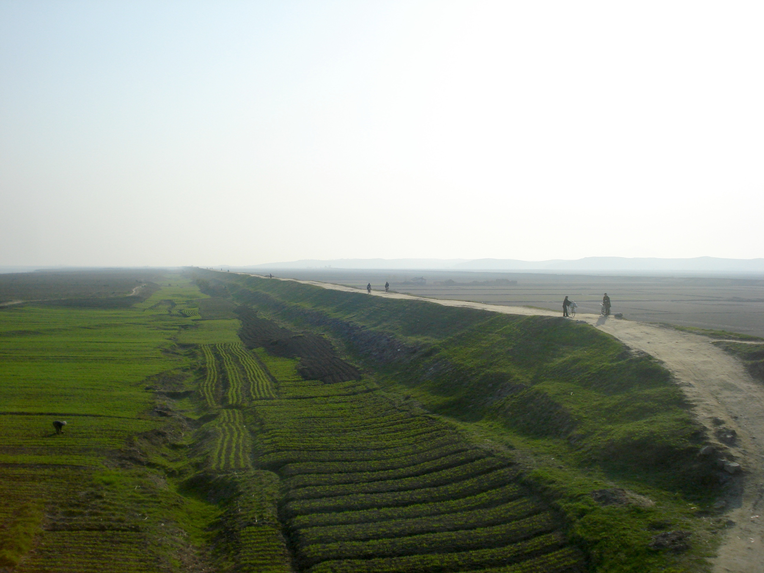 Rice fields of DPR Korea